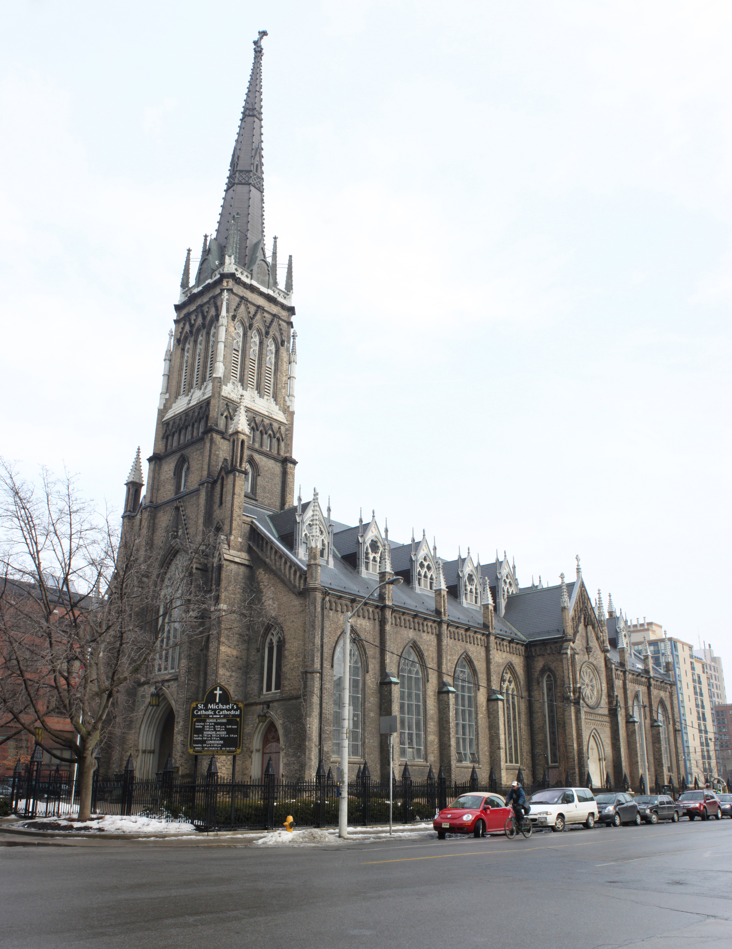 A view from the south-west corner of Bond and Shuter Street.